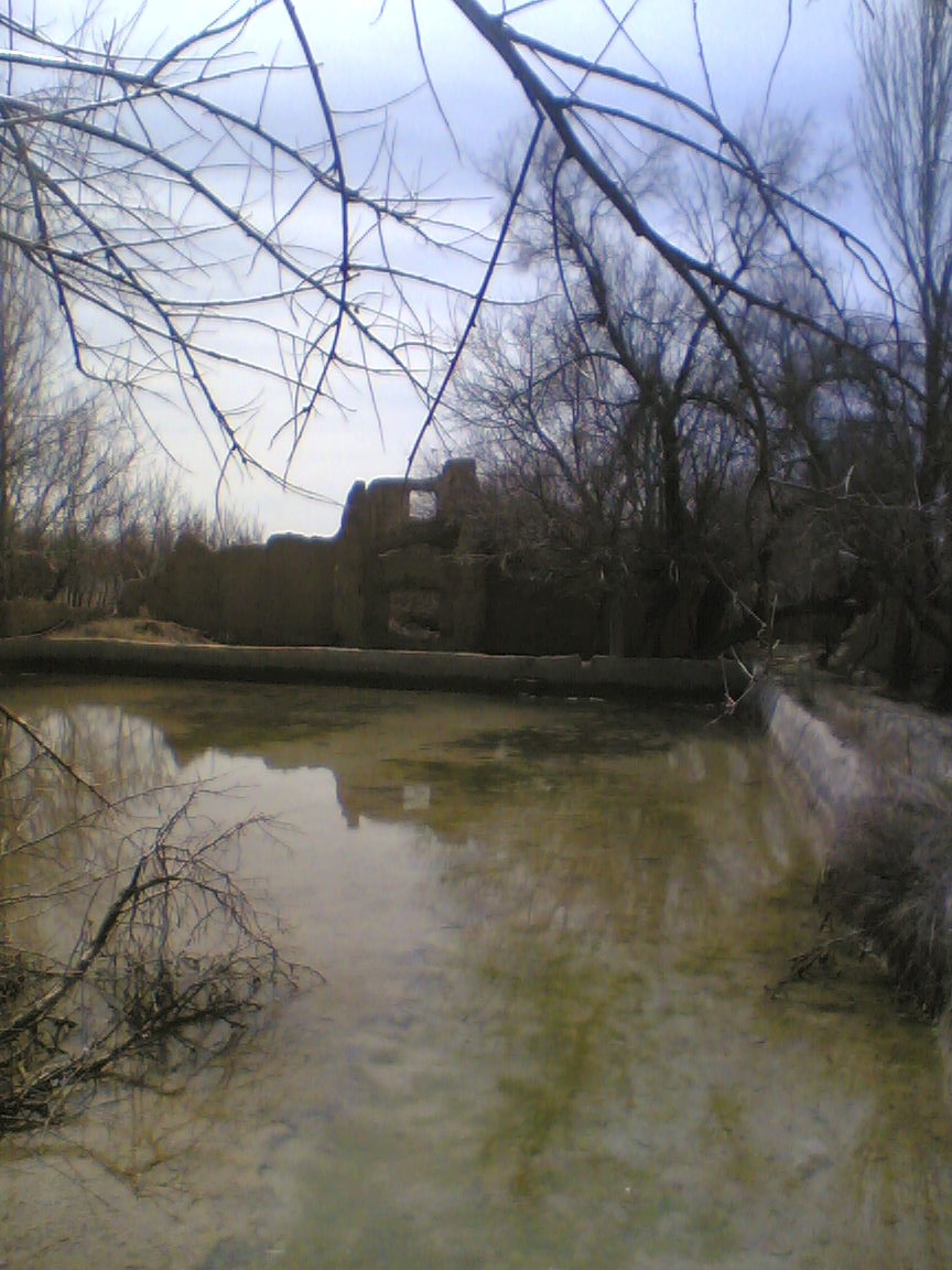 A Small Pool to Grow Fishes in Penderjohn